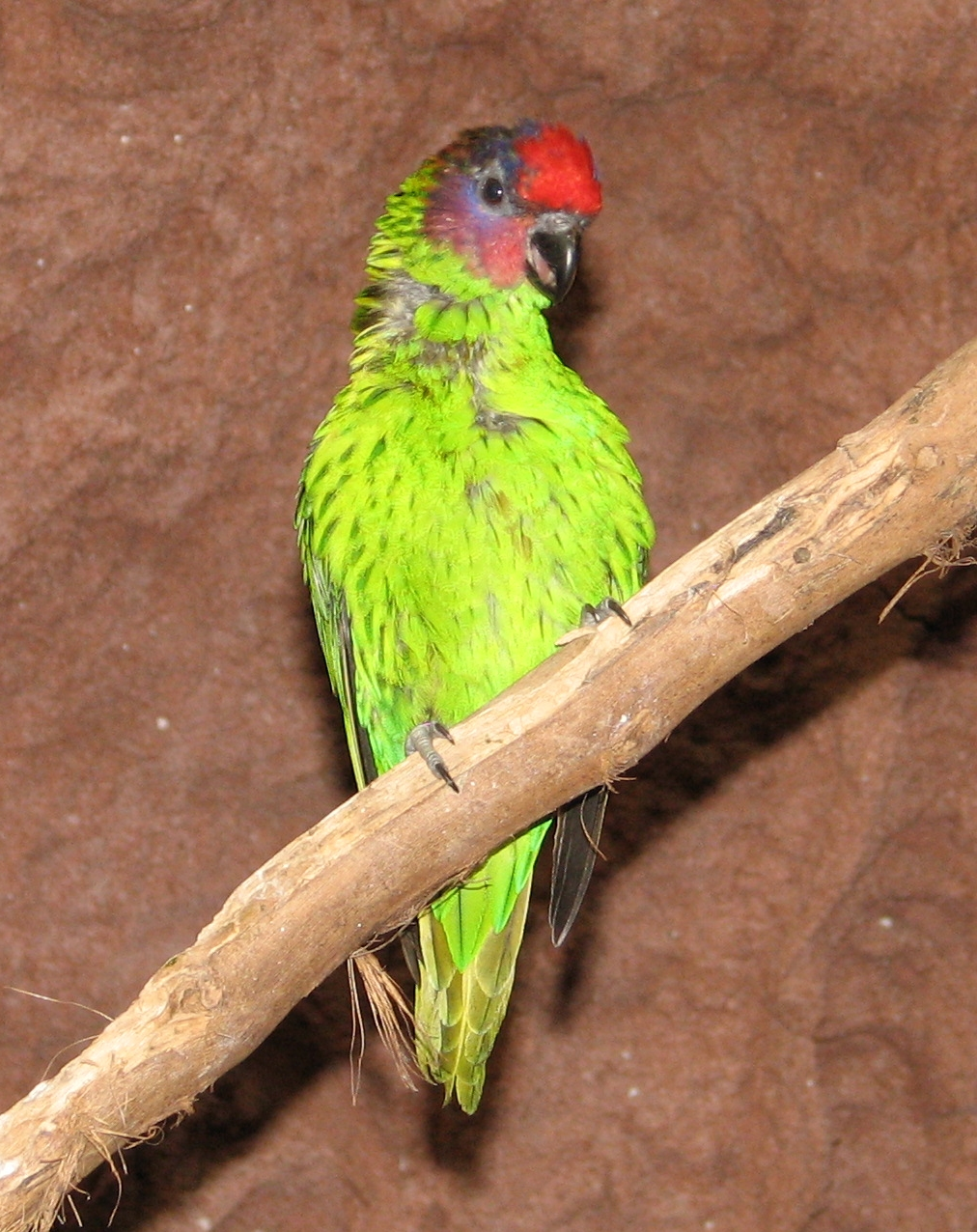 Goldie's Lorikeet (Psitteuteles goldiei) at Newport Aquarium, Kentucky, USA.